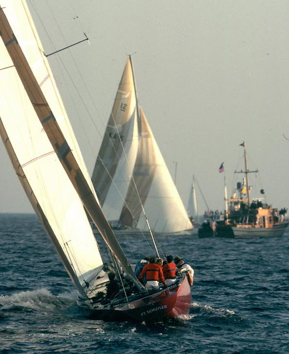 Liberty on starboard watching Australia II cross the finish line to win the 1983 America's Cup